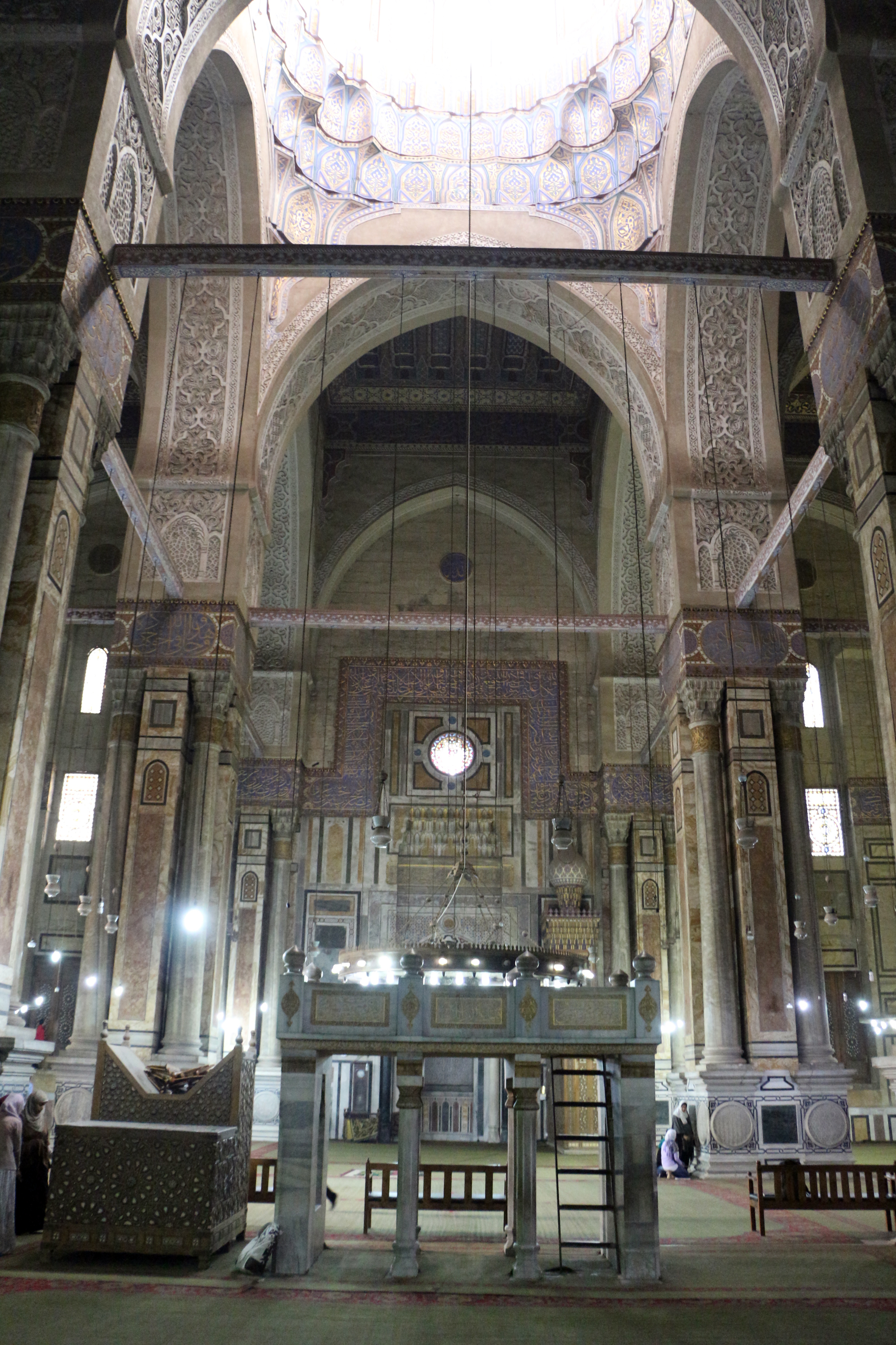 Al-Rifa'i Mosque